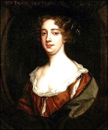 Portrait of Aphra Behn